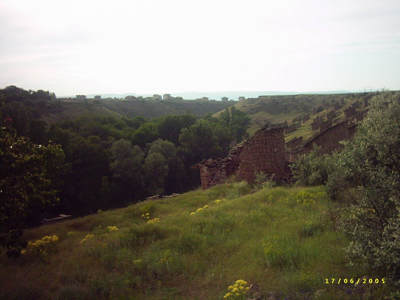 A view from Kayabağ, Gesi.